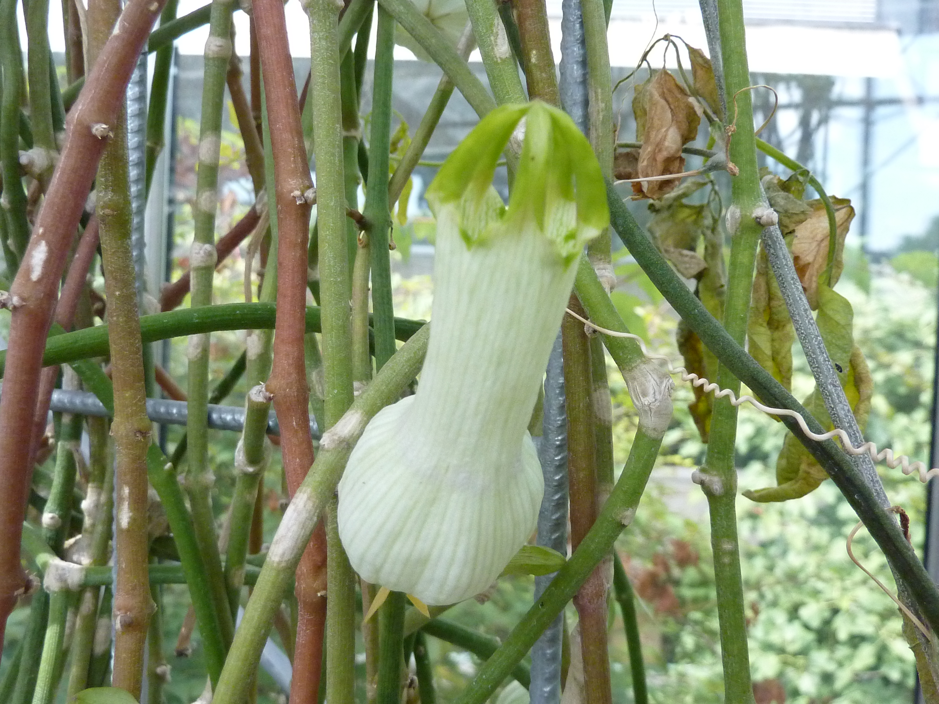 Ceropegia ampliata at the Botanical Garden of the University of Basel.